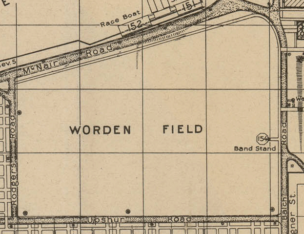 The US Naval Academy's Worden Field, from the 1924 edition of the United States Naval Academy, Annapolis, Maryland map.